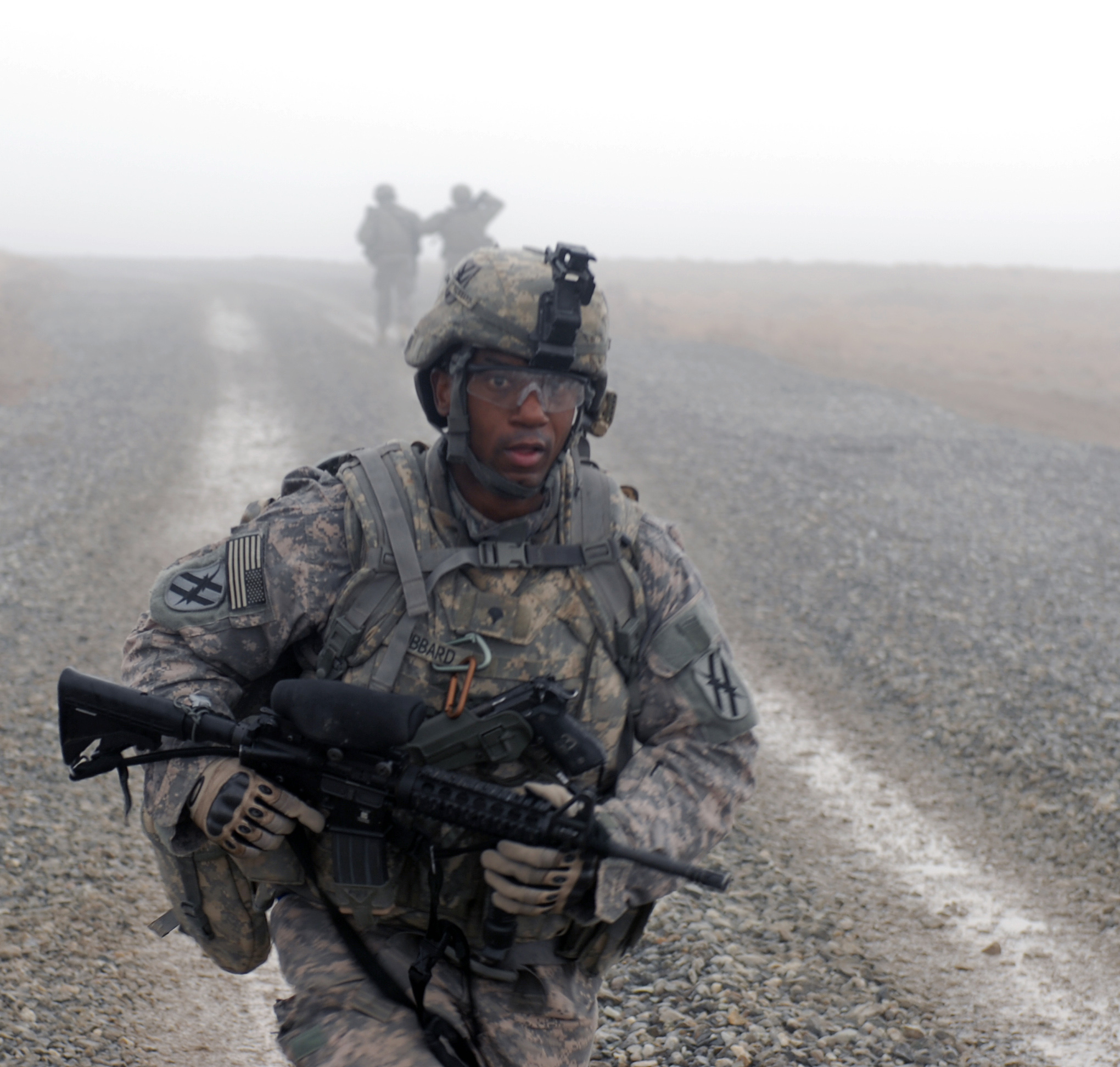 U.S. Army Spc. Darrell Hubbard, 1-121, 48th Infantry Brigade Combat Team, Georgia Army National Guard, completes a nine-mile rucksack march around Gharib Ghar, a 7,000 ft. mountain near Kabul, Afghanistan, Jan. 28, as part of the Non-commissioned officer of the Year competition for the 48th Infantry Brigade Combat Team, Georgia Army National Guard. The competition was a rugged four-day test to find the best of the best of the 48th IBCT. (U.S. Army photo by Staff Sgt. David Bill) 48th Brigade, Ga. National Guard Photo by Staff Sgt. David Bill Date: 01.28.2010 Location: Kabul, AF Related Photos